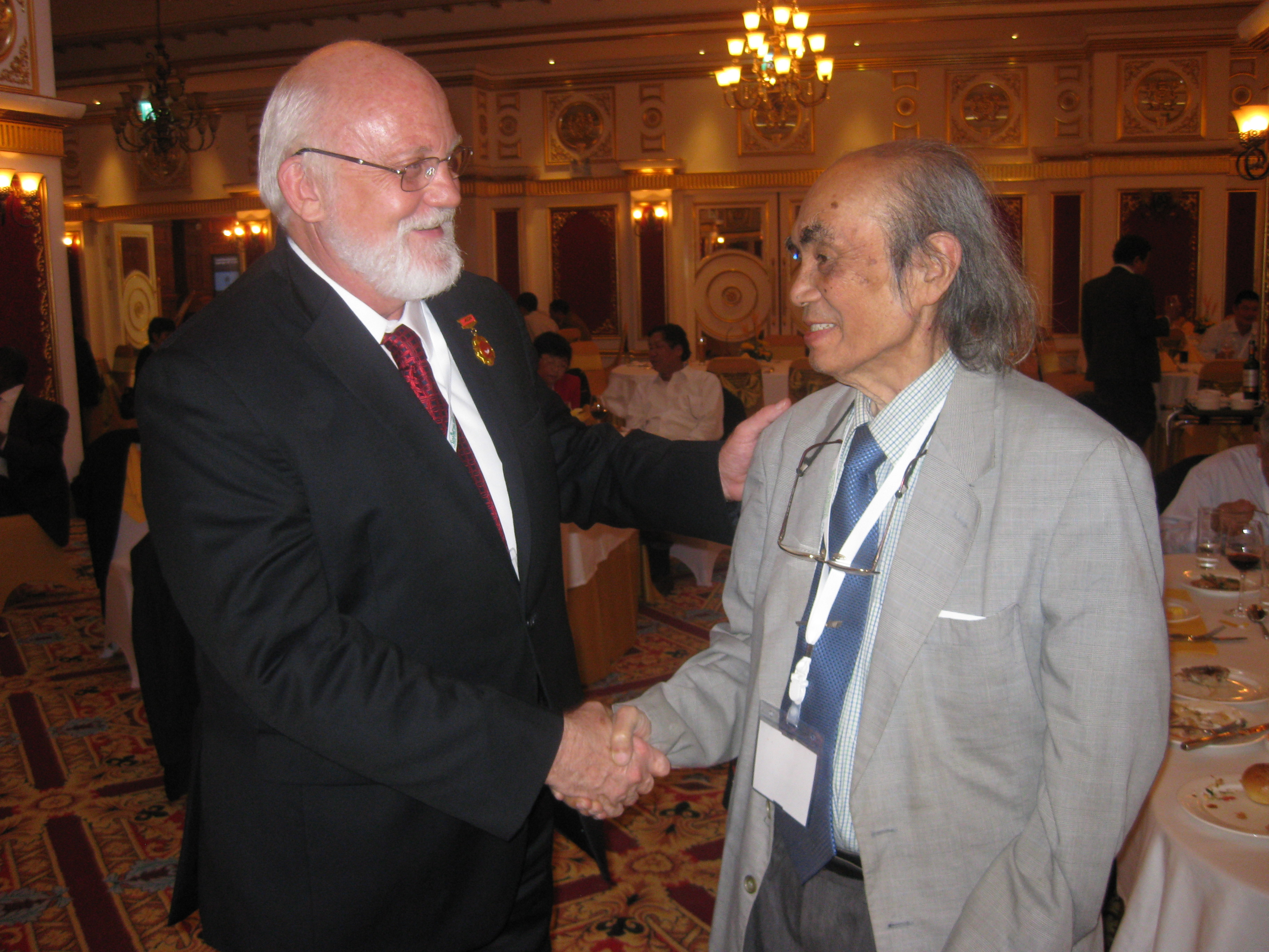 Prof. Dao the tuan—professor, academician, administrator, and rice breeder. He was the former director of the Vietnam Academy of Agricultural Sciences (VAAS; ) and had strong partnership ties to IRRI throughout the Institute’s long and fruitful relationship with Vietnam. Part of the image collection of the International Rice Research Institute (IRRI) .